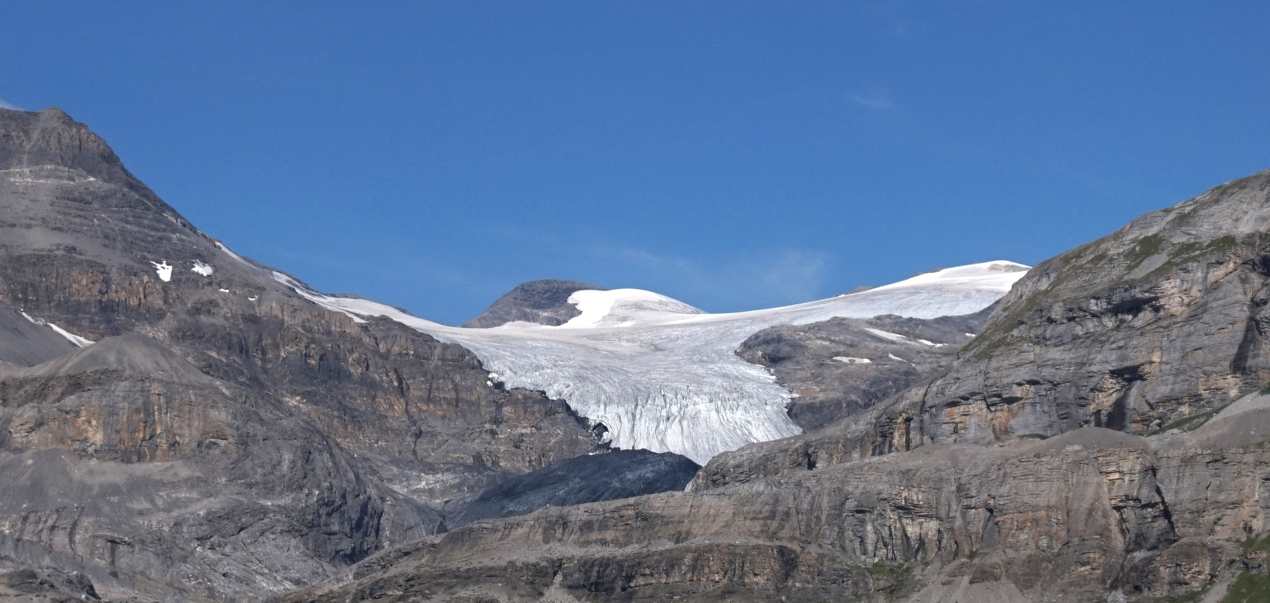 View to the Wildstrubel Glacier in Switzerland.